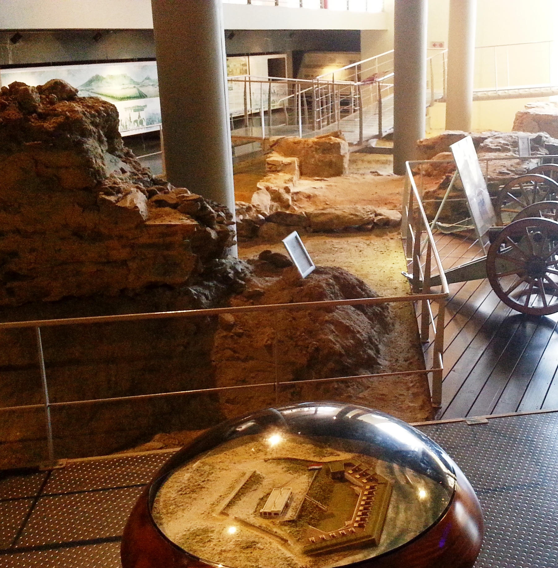 Sand of original Cape Town shoreline buried for 300 years. Step below sea level for a fascinating insight into 17th & 18th century Cape.